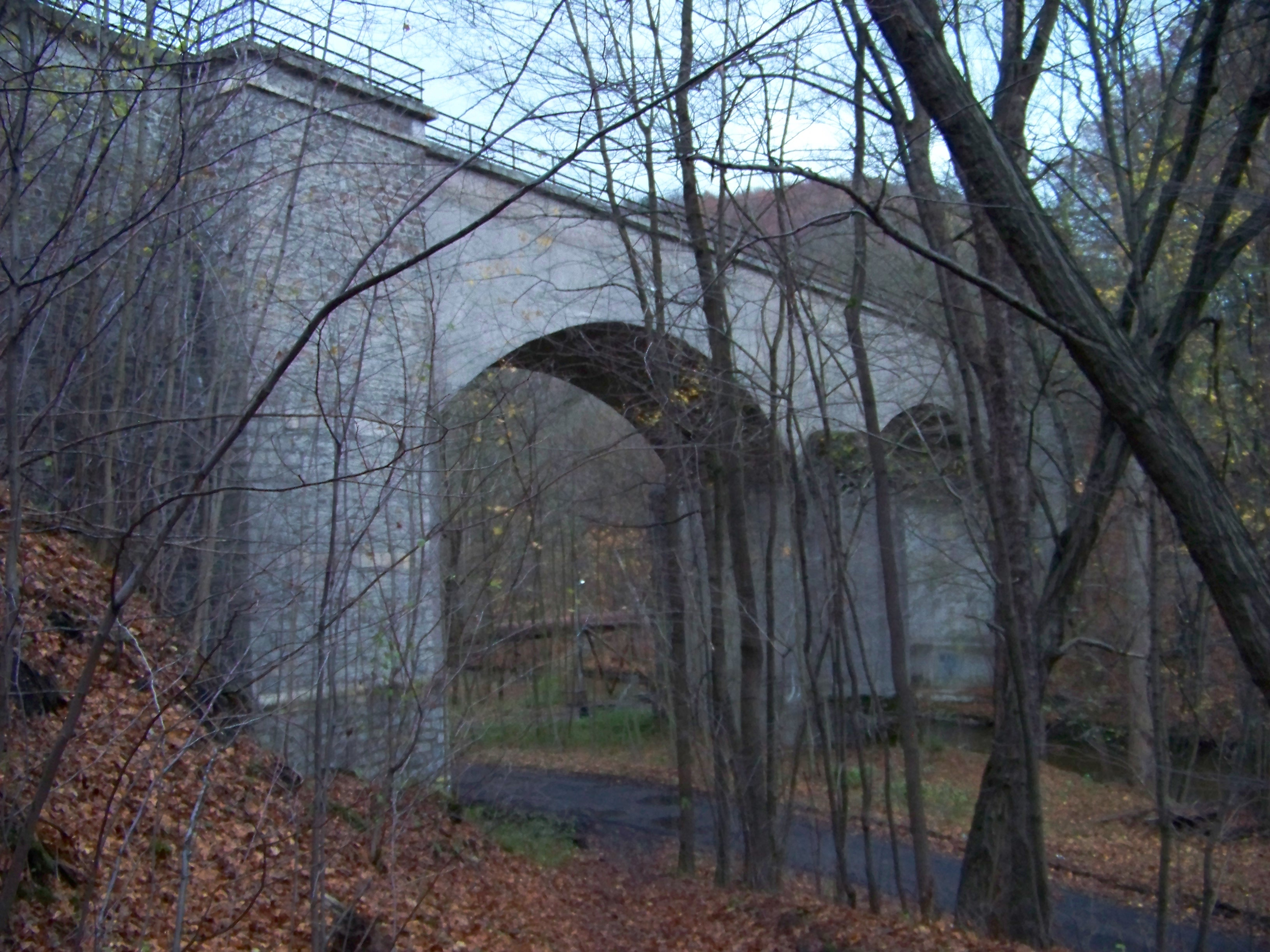 Chrastava-Andělská Hora, Liberec District, Liberec Region, Czech Republic. Railway bridge near Hamrštejn.